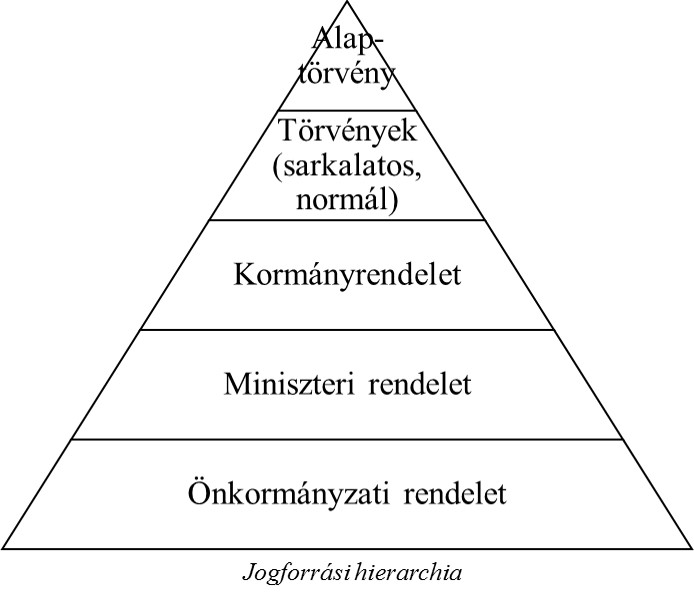 Hierarchy of legal norms in Hungary